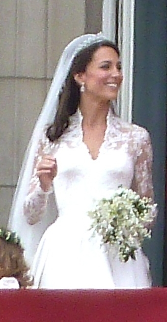 Kate, the Dutchess of Cambridge, on Buckingham Palace balcony after her wedding to Prince William.